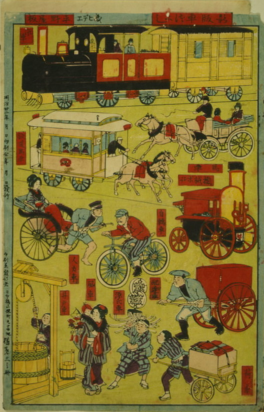 Kuruma zukushi / Melange of vehicles. Japanese print shows various forms of transportation employed by people, including a train, horse-drawn carriage, horse-drawn trolley, rickshaw, bicycle, hand-drawn carts. Man drawing water from a well, woman with child on back walking. 影版車津くし 平野屋板